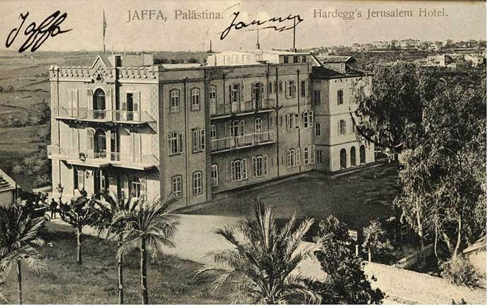 Hardegg's Jerusalem Hotel, Tel Aviv, Israel